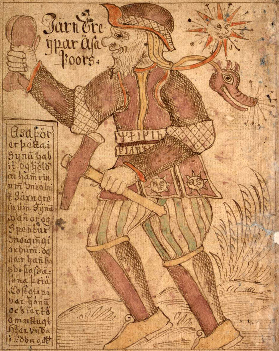 An illustration of the god Thor with his hammer Mjöllnir, from an Icelandic 18th century manuscript.